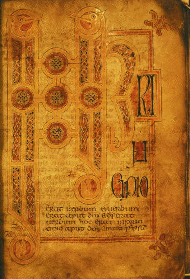 Page from the Hereford Gospels, circa 780, illustrating the Gospel of John.